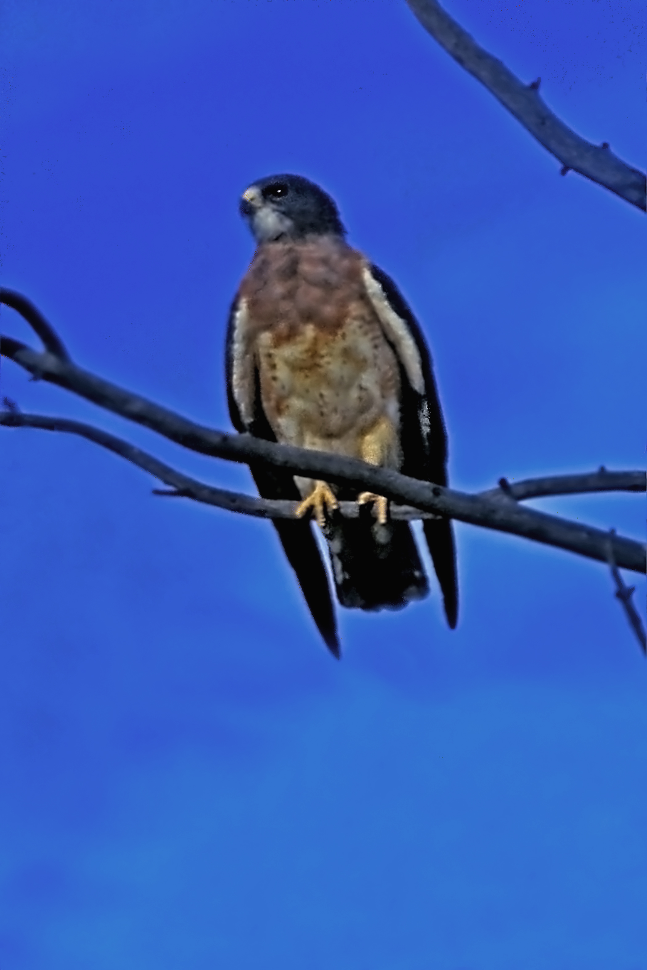 This bird migrates between Argentina and the West of the United States and Canada. This hawk was photgraphed on Hereford Road in Hereford, Arizona, in the southern San Pedro Valley.